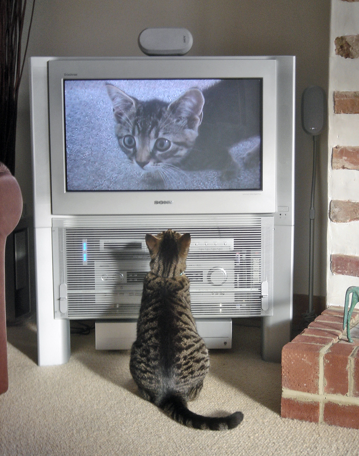 My cat watching himself when he was a kitten on my TV. He was enthralled!